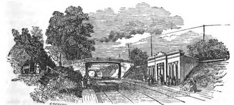 An 1847 woodcutting of the Brighton station, with a bridge - possibly Market Street - close behind, and another in the distance.